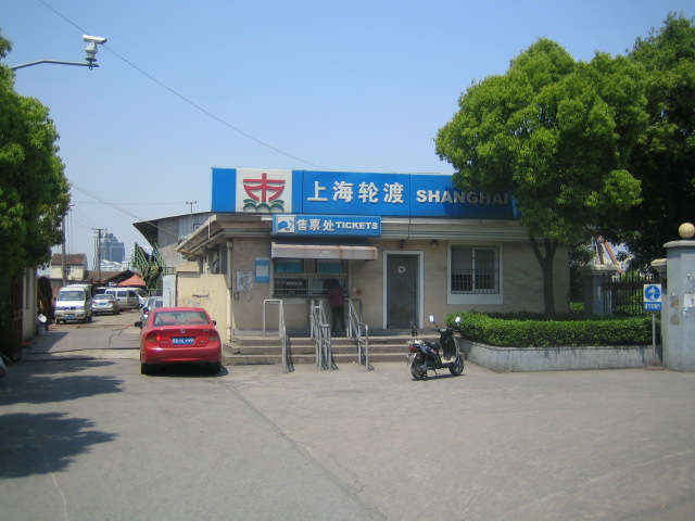 Ticket office of Sanchagang Ferry Terminal in Shanghai, People's Republic of China